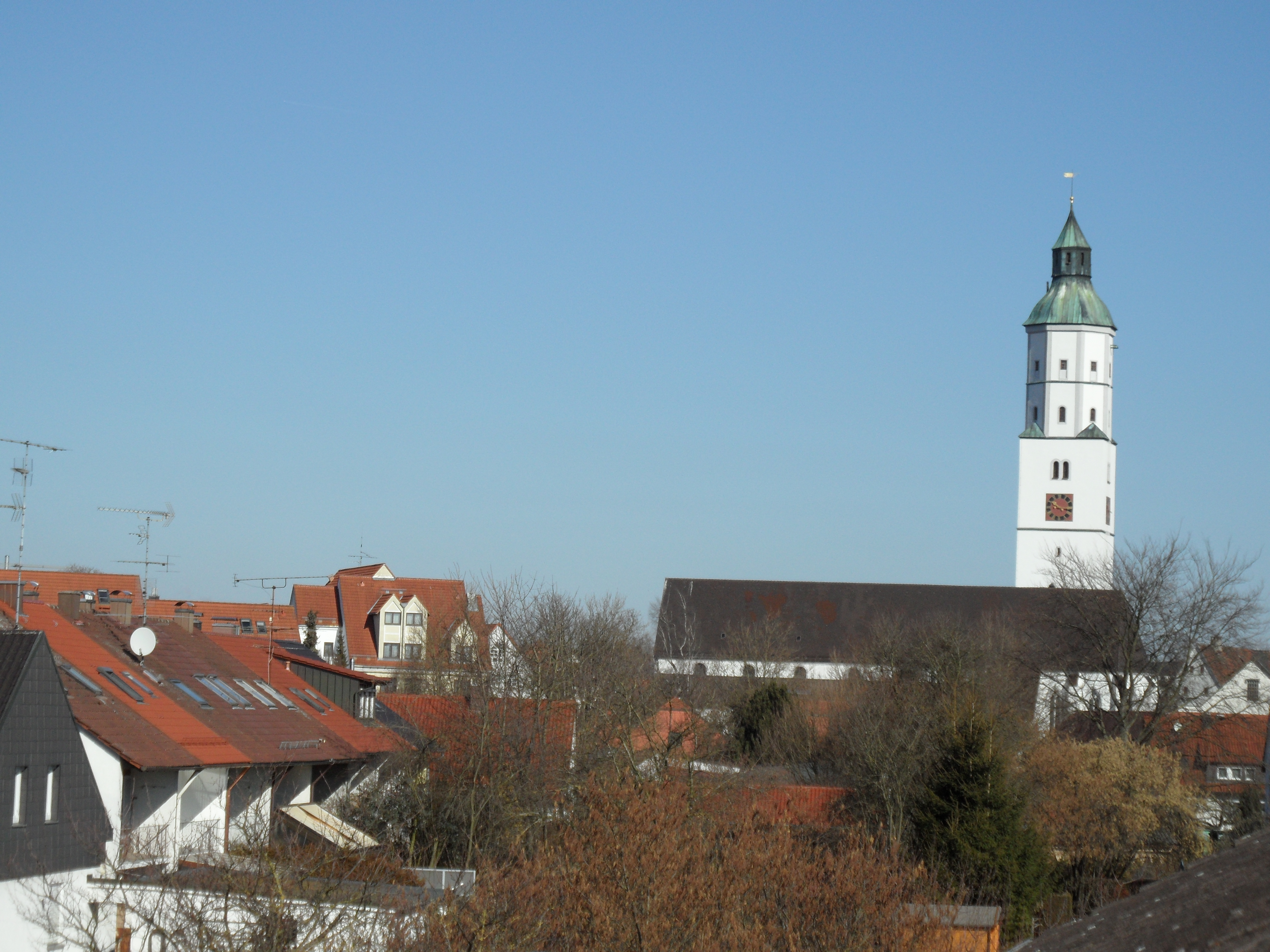 Church in Langenau